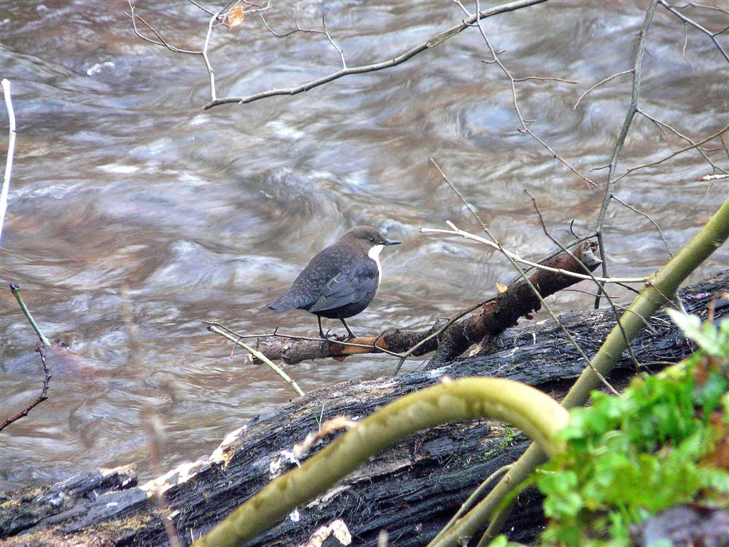 White-throated Dipper also known as the European Dipper (Cinclus cinclus gularis) in Scotland.